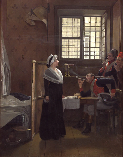 posthumous fantasy painting